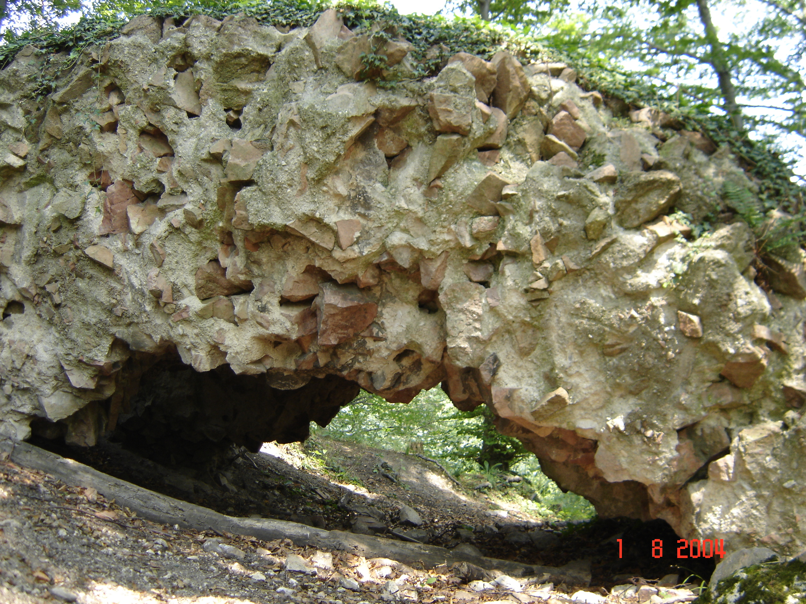 Hirschburg castle ruin, Hischberg-Leutershausen, Germany